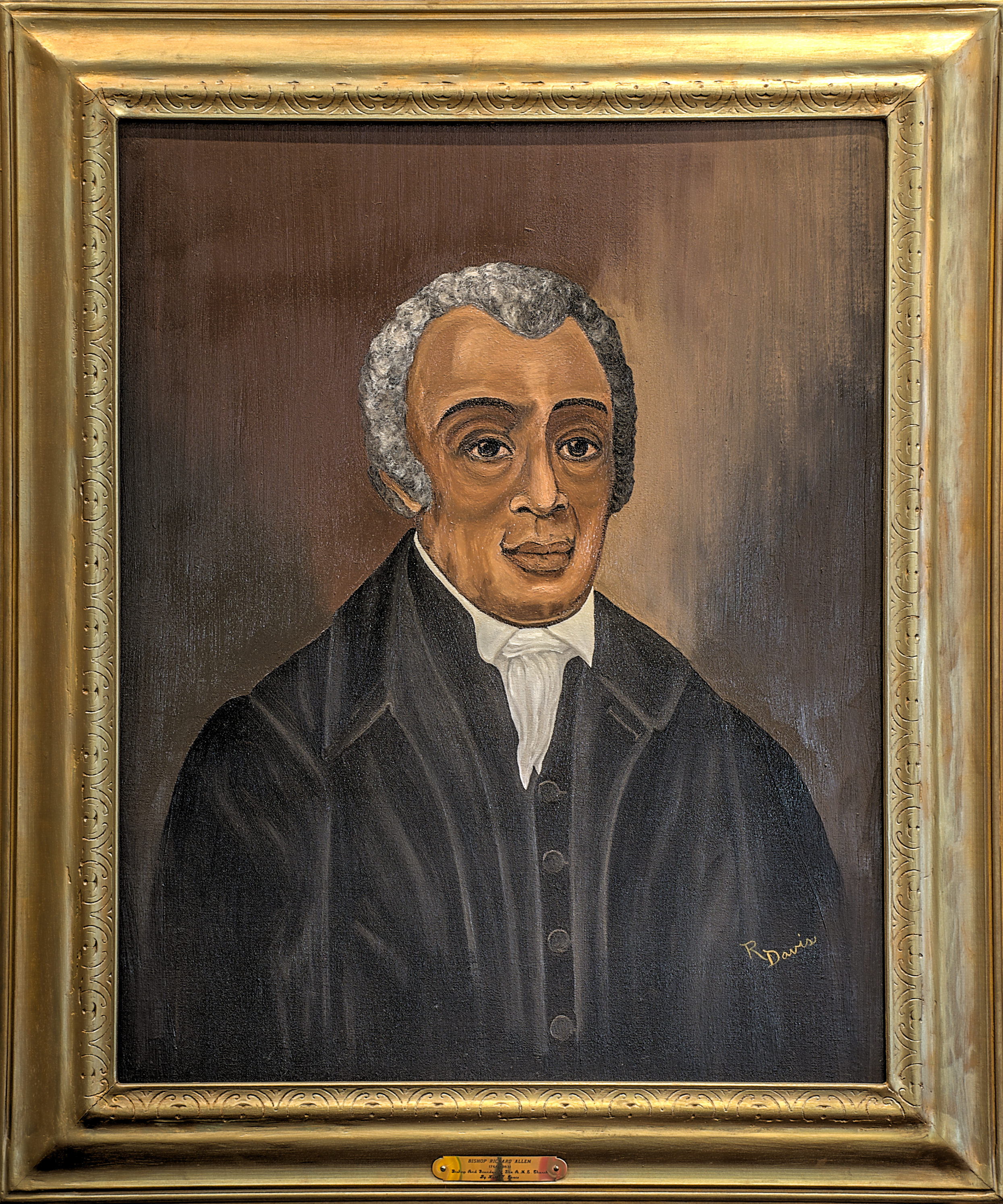 Richard Allen (1760 - 1831). Founder and First Bishop of the African Methodist Episcopal Church